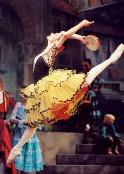 Egle Spokaite in role of Kitri